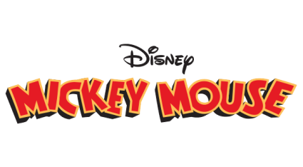 Logo of the 2013 Disney Television Animation's animated television series Mickey Mouse